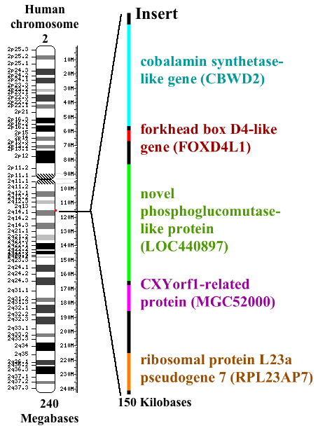 I made this diagram using PhotoShop and ClarisDraw.